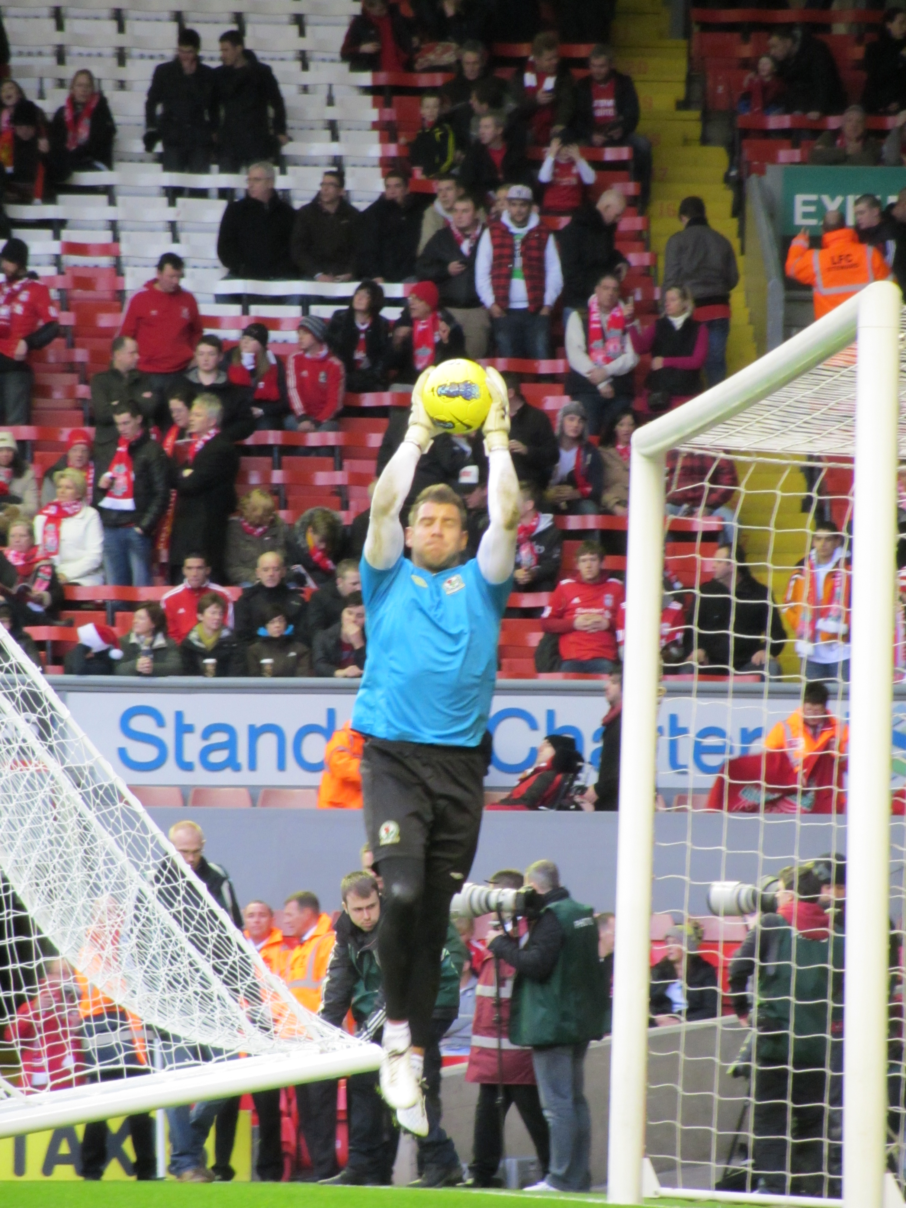 Blackburn Rovers goalkeeper warming up at Anfield before a game against Liverpool FC